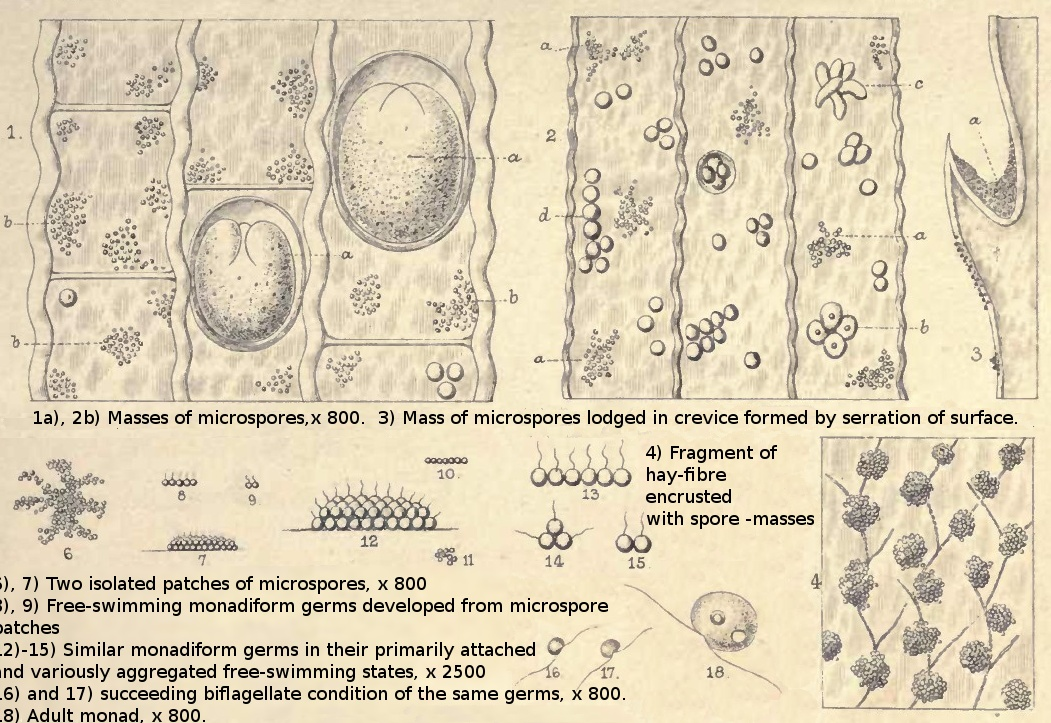 Plate XI, A Manual of the Infusoria, 1880, edited to match Kamera lens